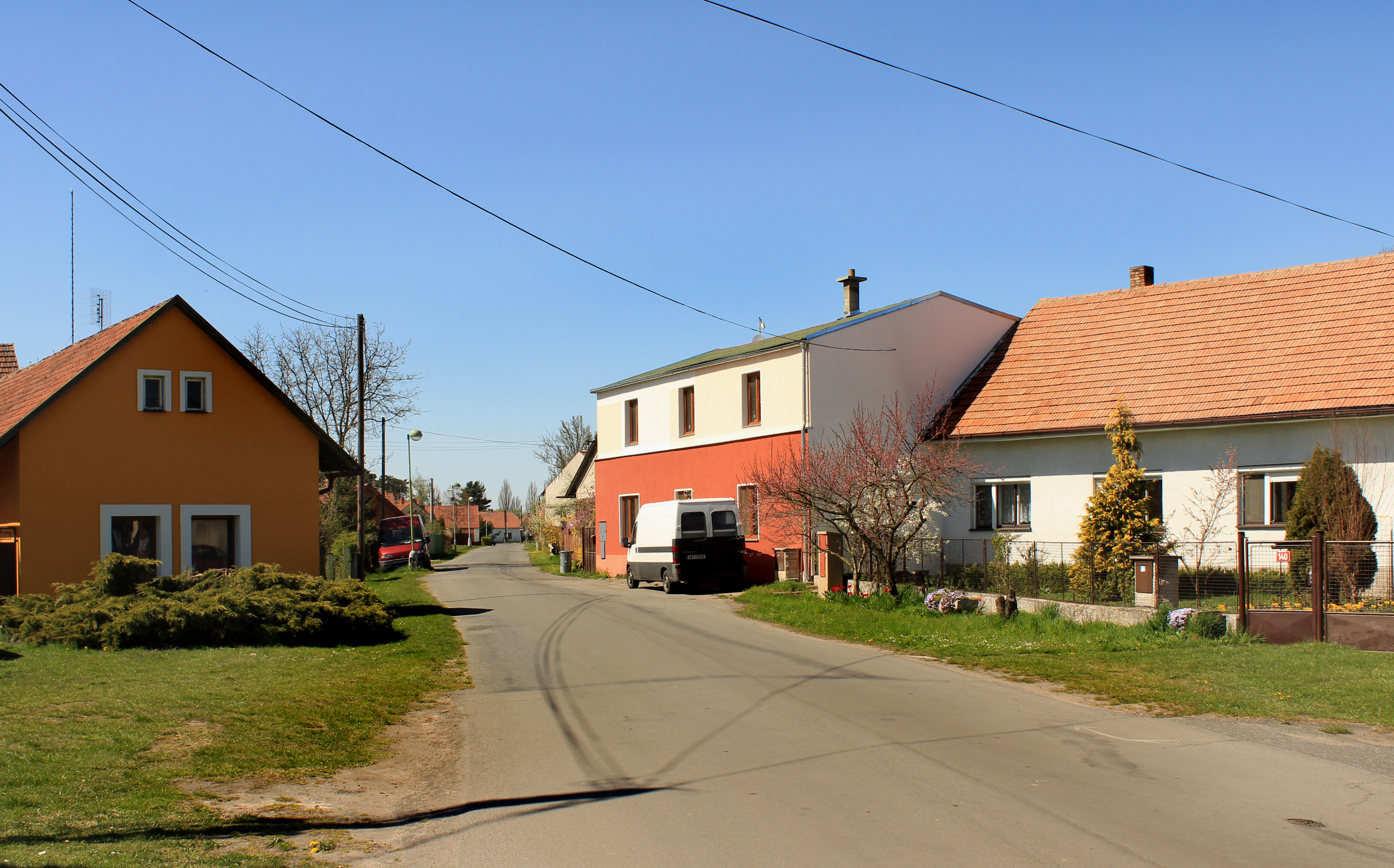 Common in Písty, Czech Republic.